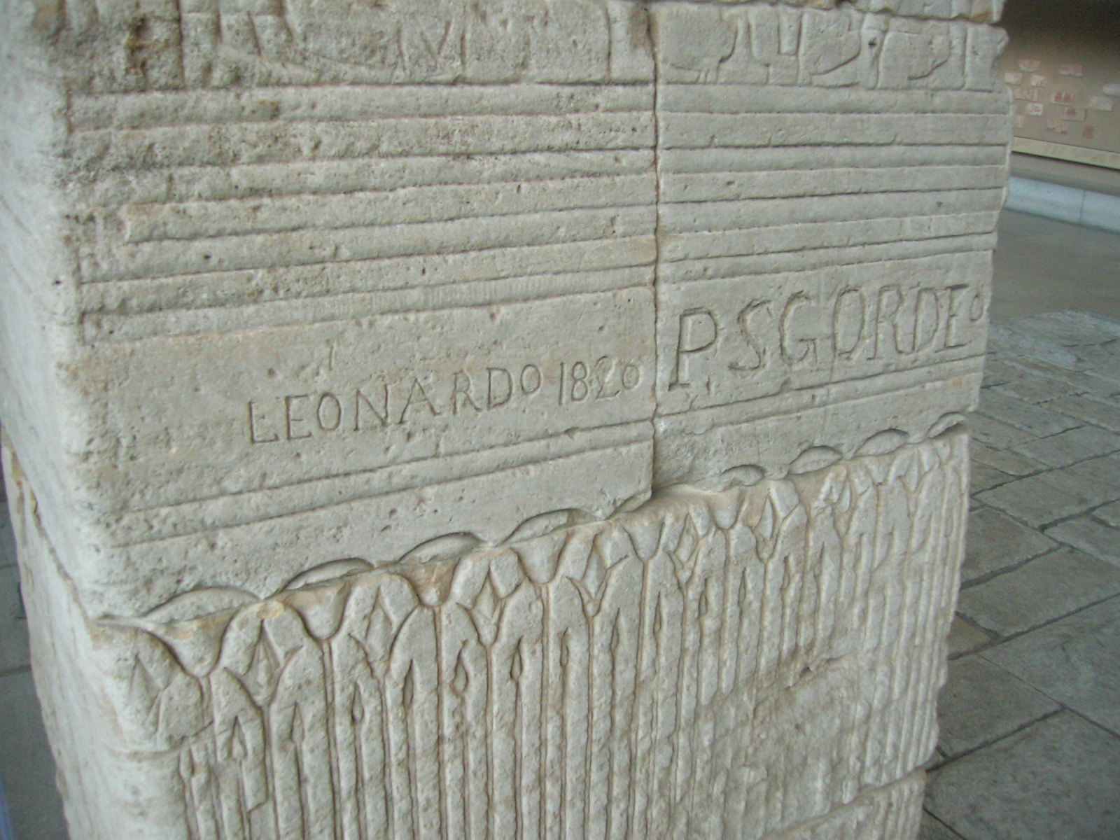 Temple of Dendur, New York.